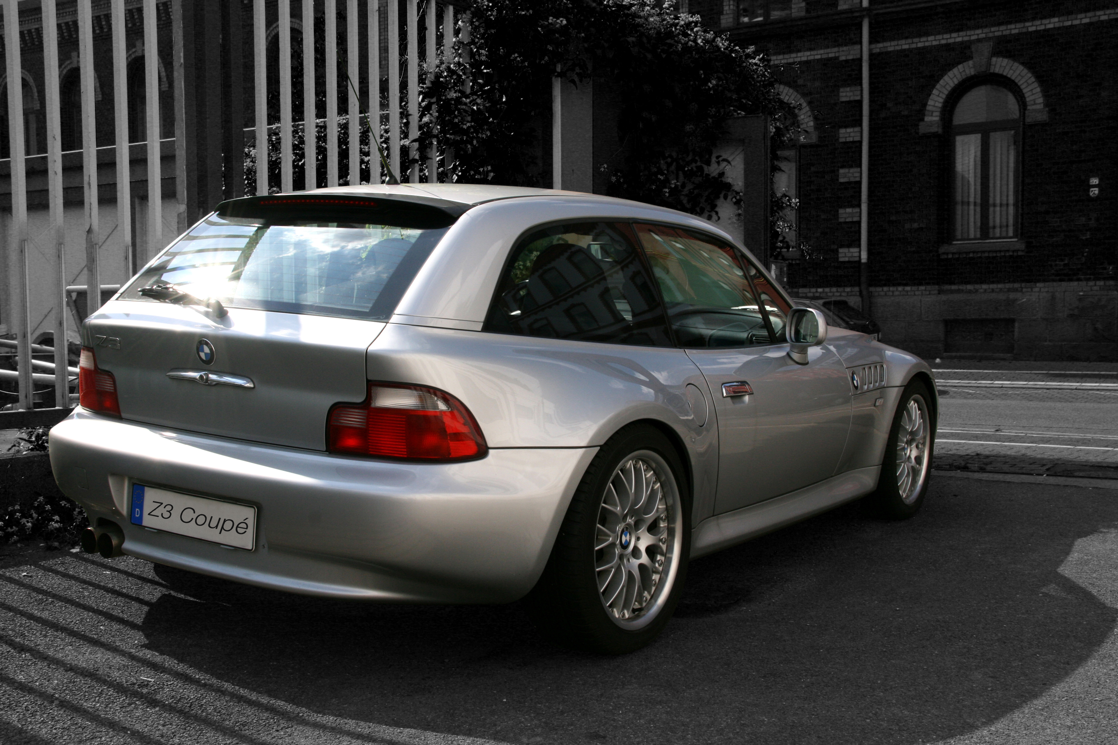 Z3 Coupe 2.8